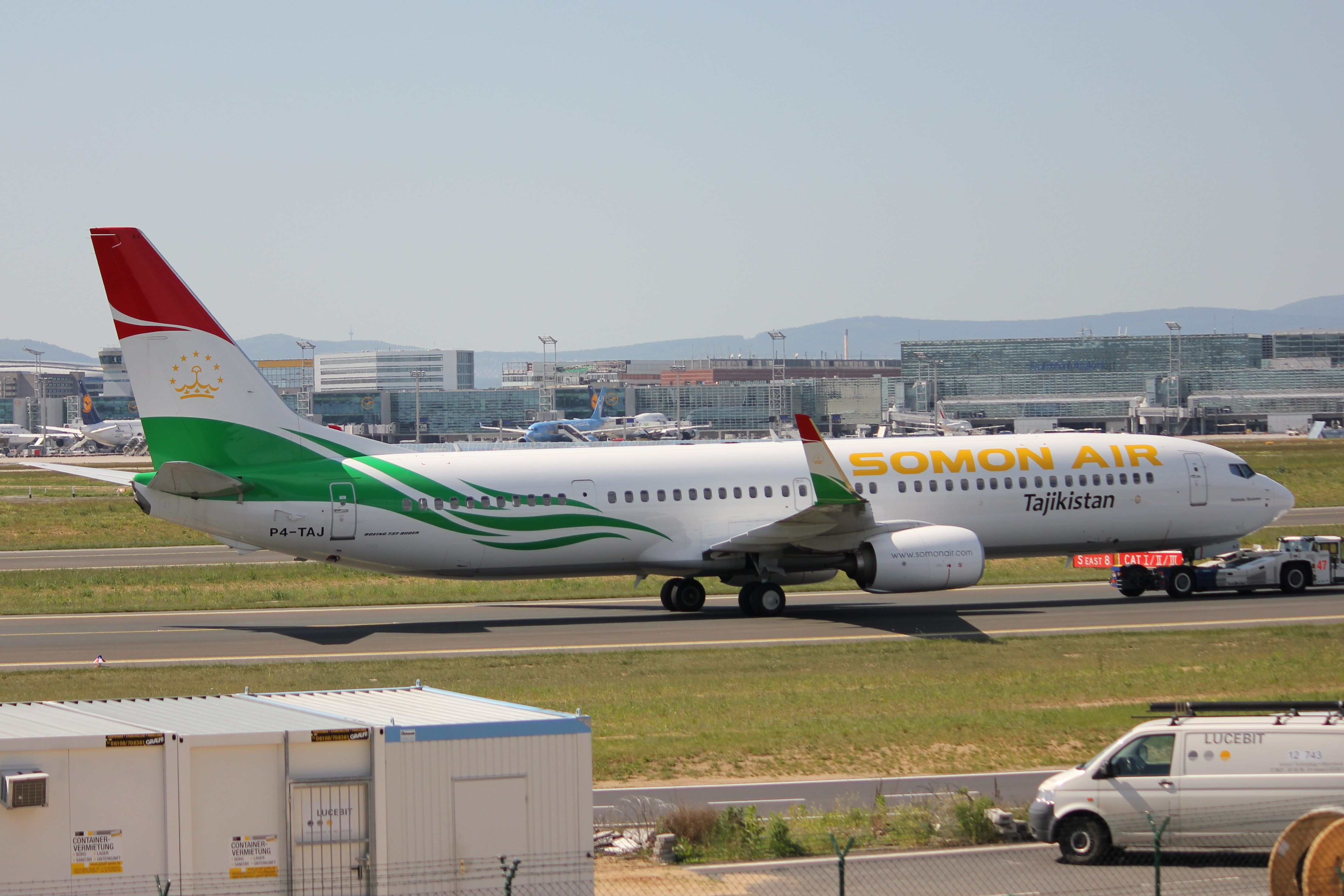 Somon Air 739 taxiing at Frankfurt intl. Airport